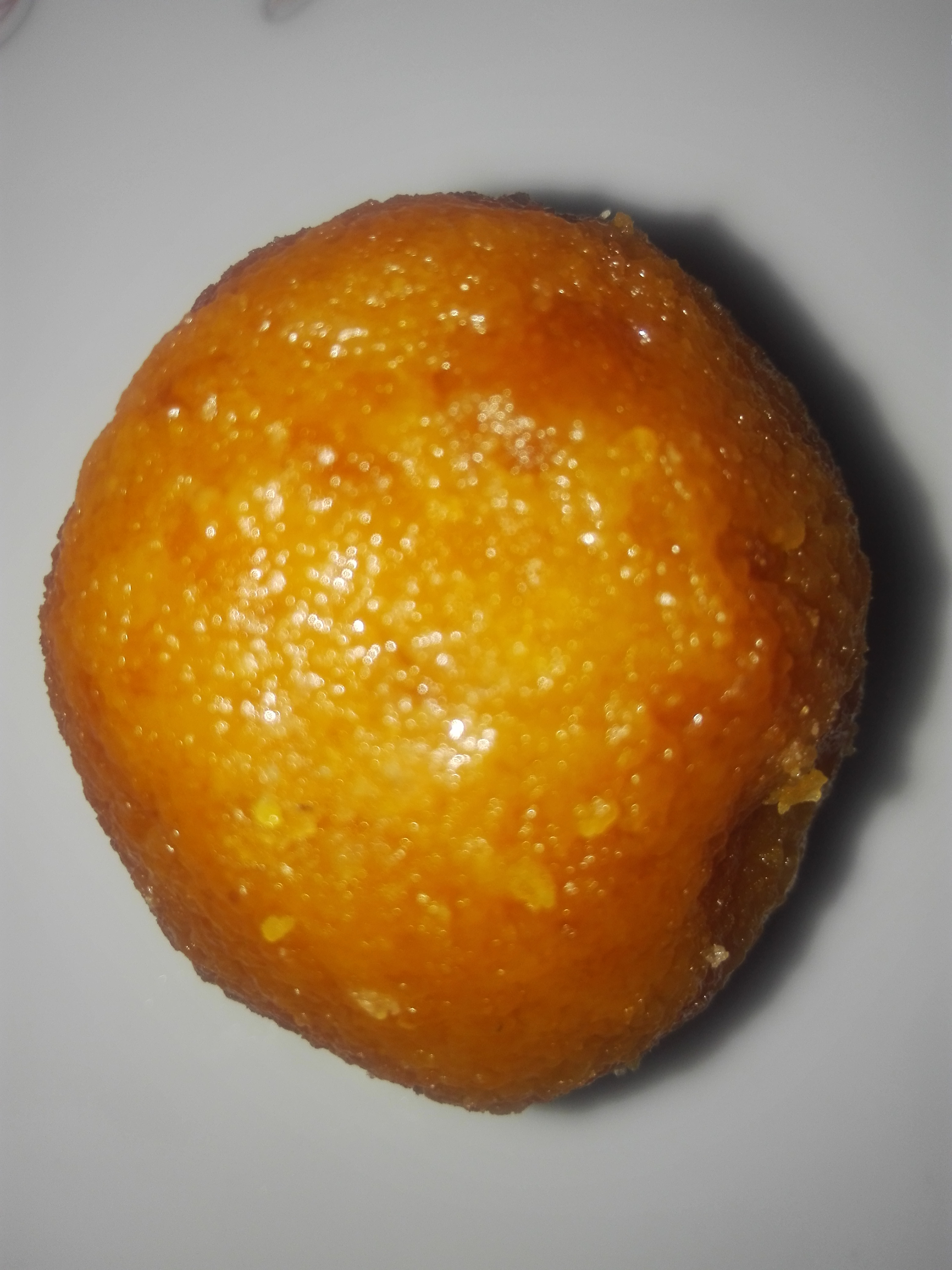 Laddu